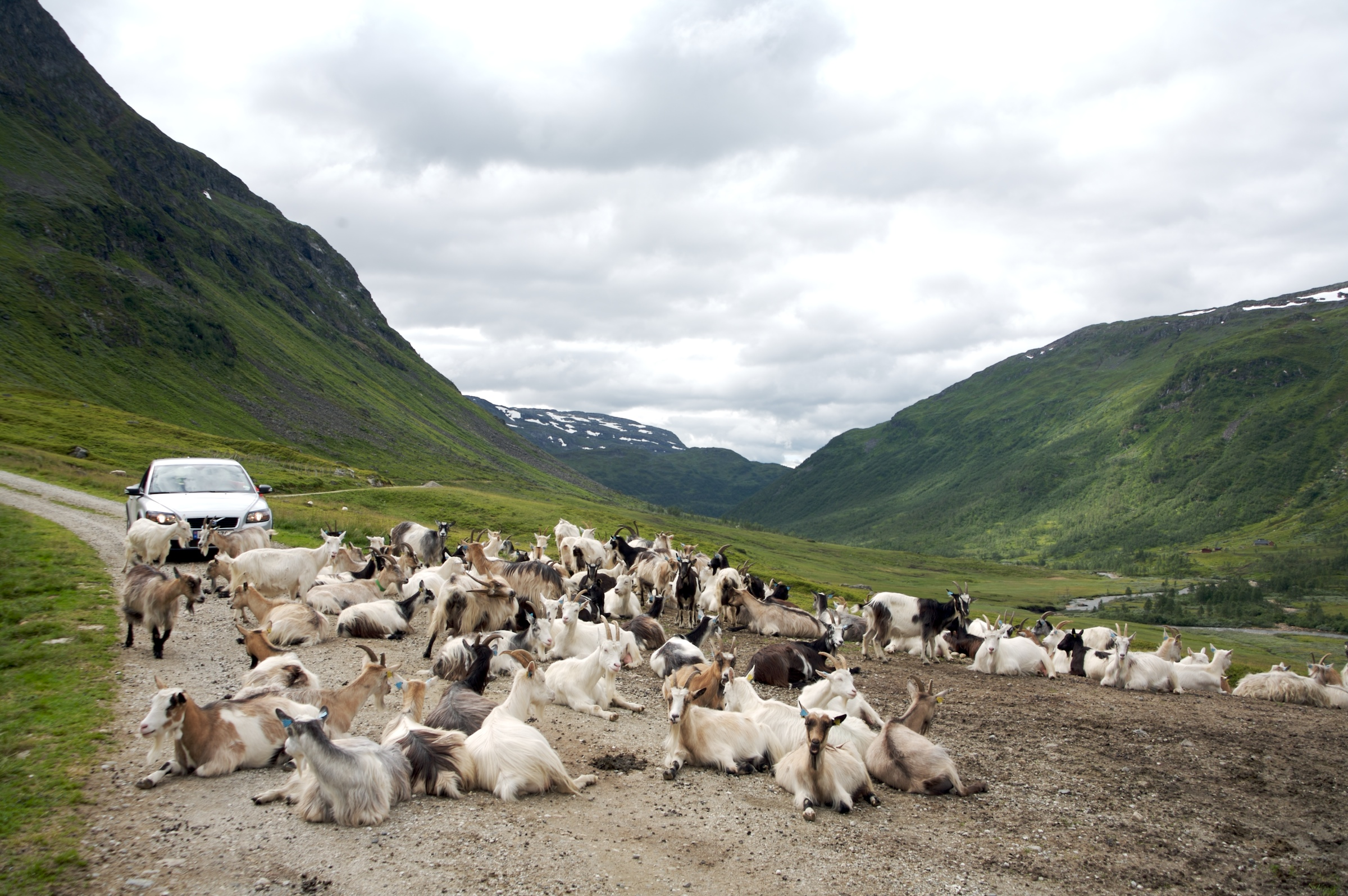 Goats in Fresvikjordalen, Aurland. Honeymoon in Norway, July/August 2008 Honeymoon in Norway, July/August 2008